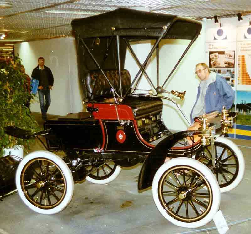 Oldsmobile Model 6C Curved Dash Runabout 1904